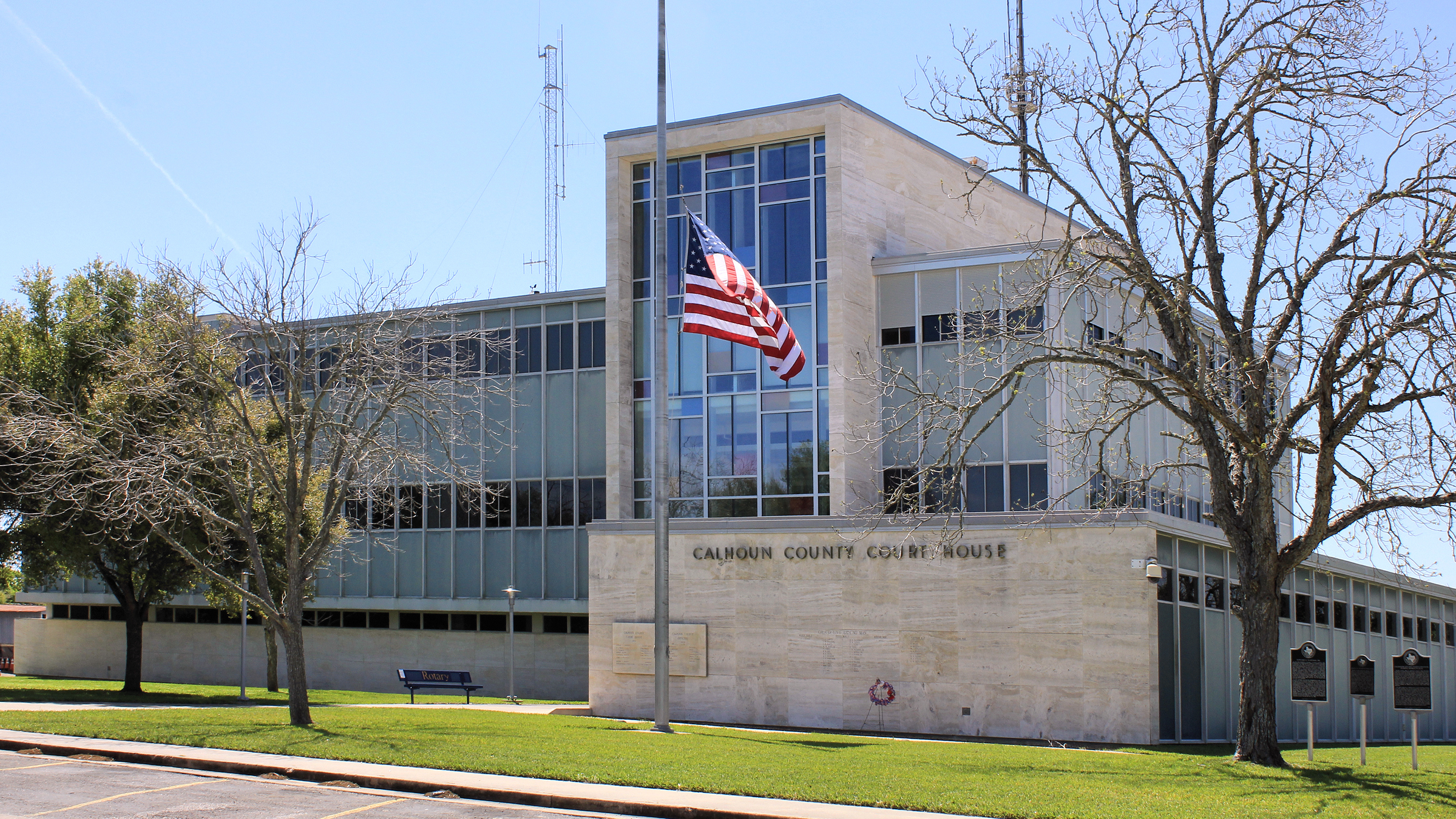 The Calhoun County Courthouse in Port Lavaca, Texas, United States was built in 1959.